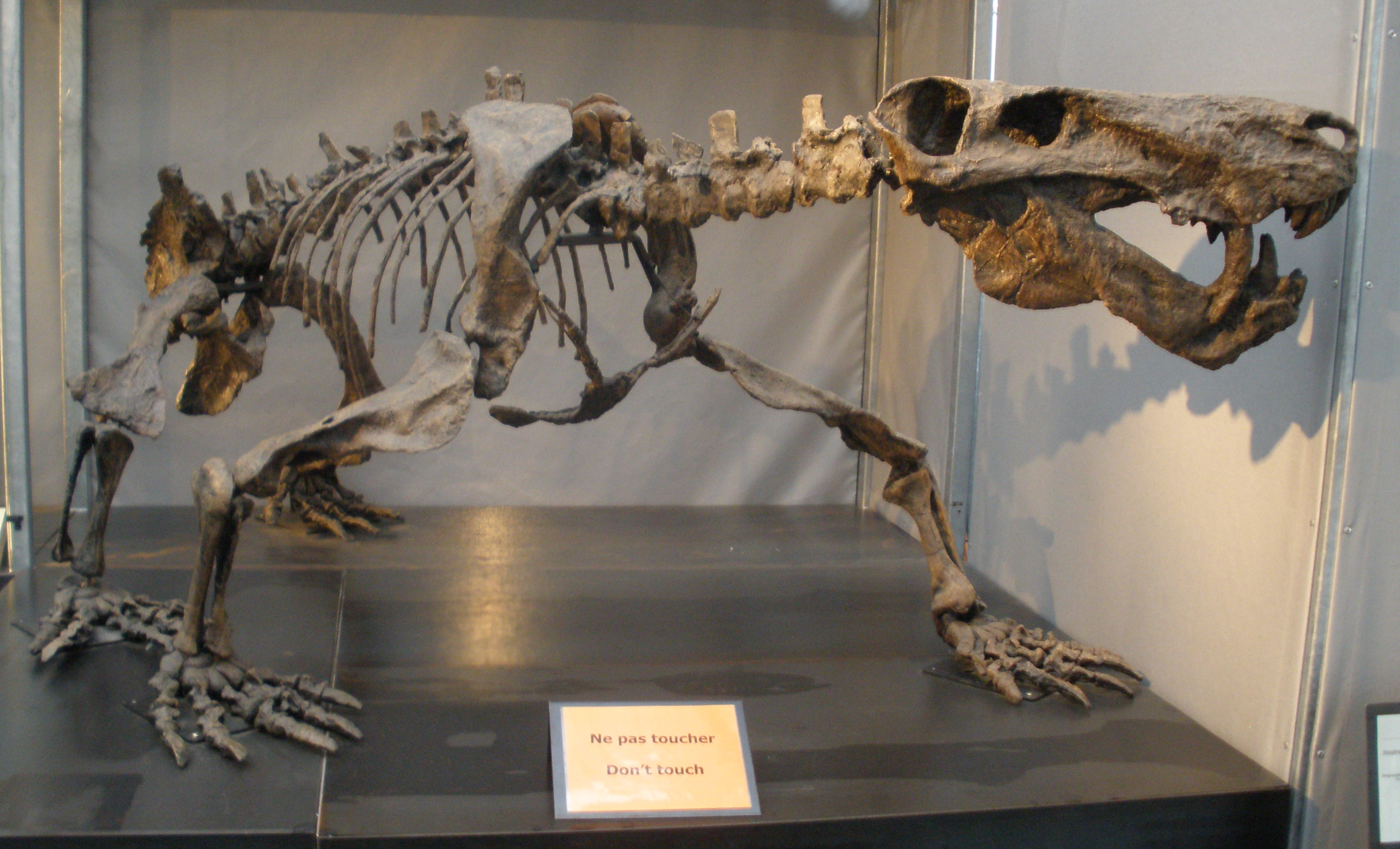 fossil of Inostrancevia alexandri, an extinct therapsid